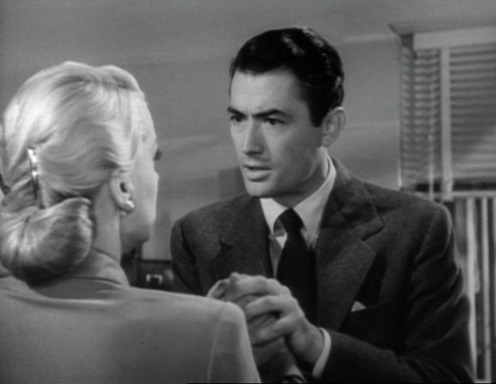 Cropped screenshot of June Havoc and Gregory Peck from the trailer for the film Gentleman's Agreement.